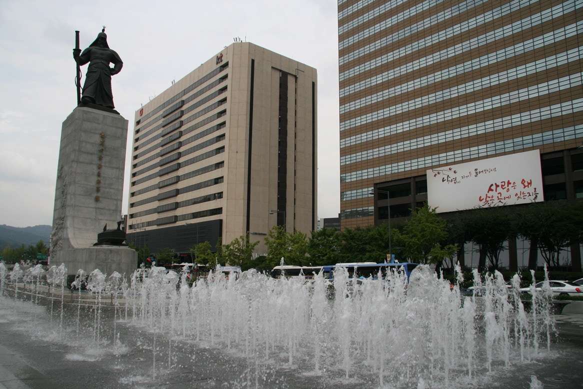 Statue of Admiral Yi Sun-sin with the 12.23 Fountain in front at Gwanghwamun Plaza in Jongno-gu, Seoul, South Korea in 2012